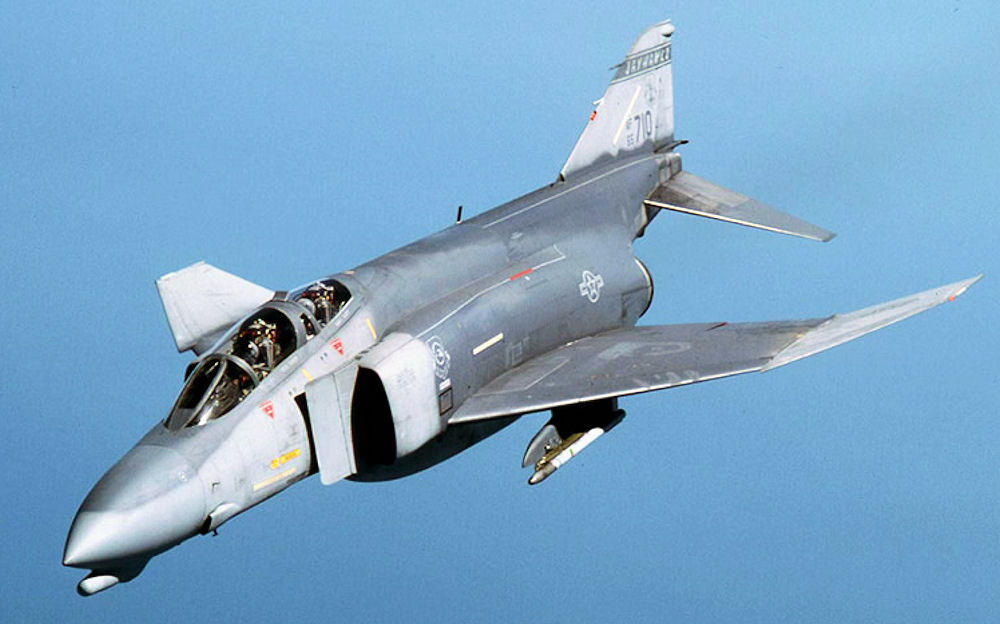 KS ANG 184th Fighter Group - McDonnell F-4D-28-MC Phantom 66-0710 Aircraft was retired to AMARC as FP0463 Mar 19, 1990. Sent to Holloman AFB, NM for QF-4D target, expended on Mar 25, 1998